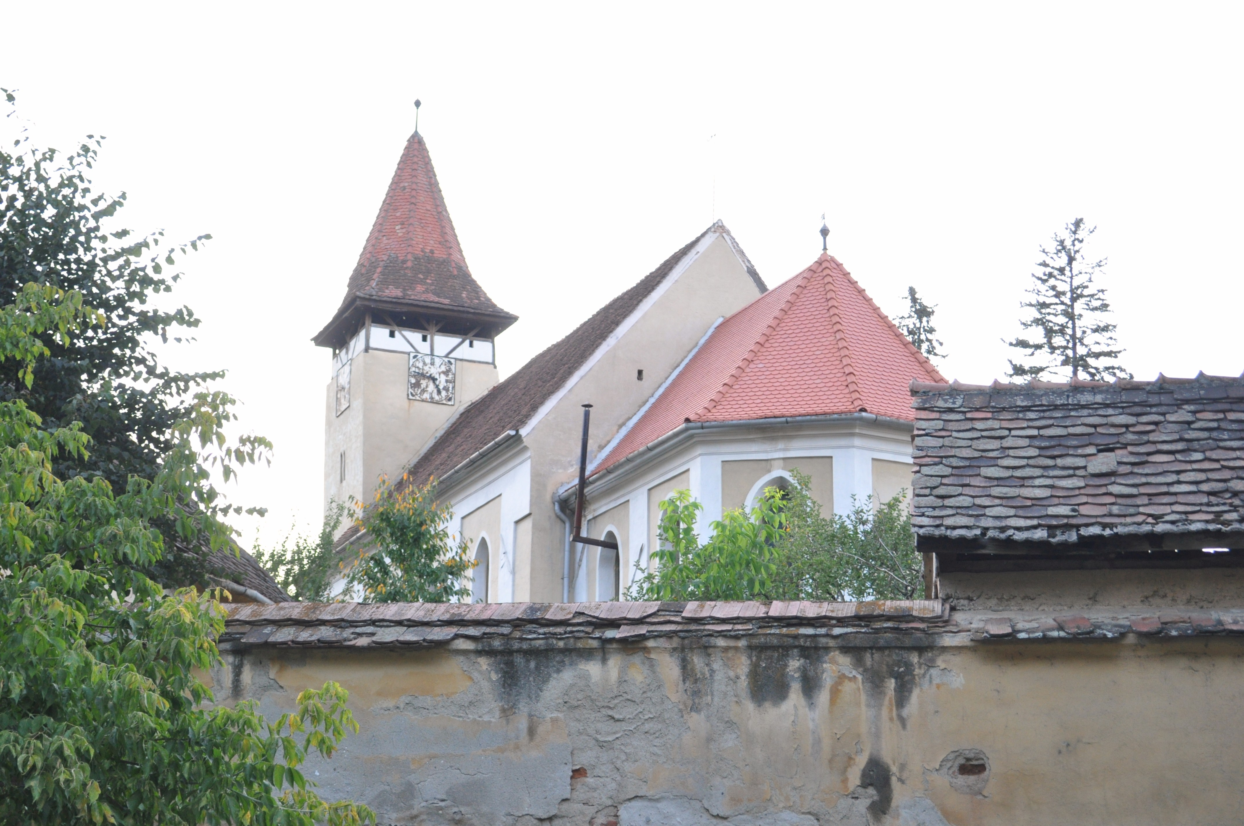 Lutheran church in Cisnădioara, Sibiu countyRomână: Biserica evanghelică din Cisnădioara, județul Sibiu